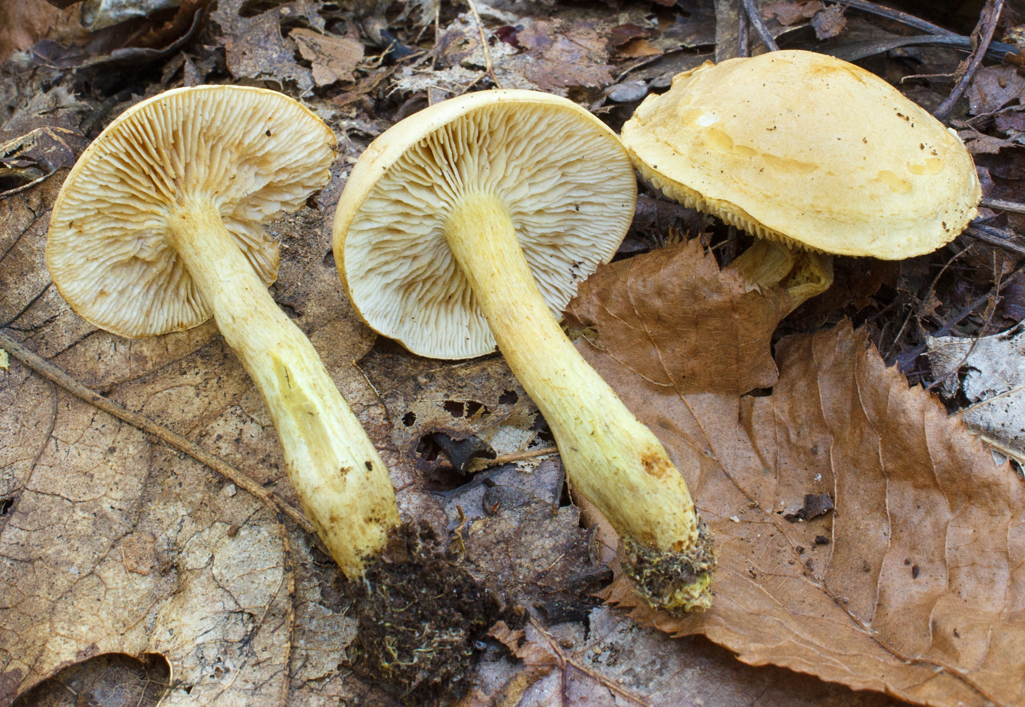 Fruit bodies of the agaric fungus Tricholoma odorum Peck. Photographed in Orange Co., North Carolina, USA.